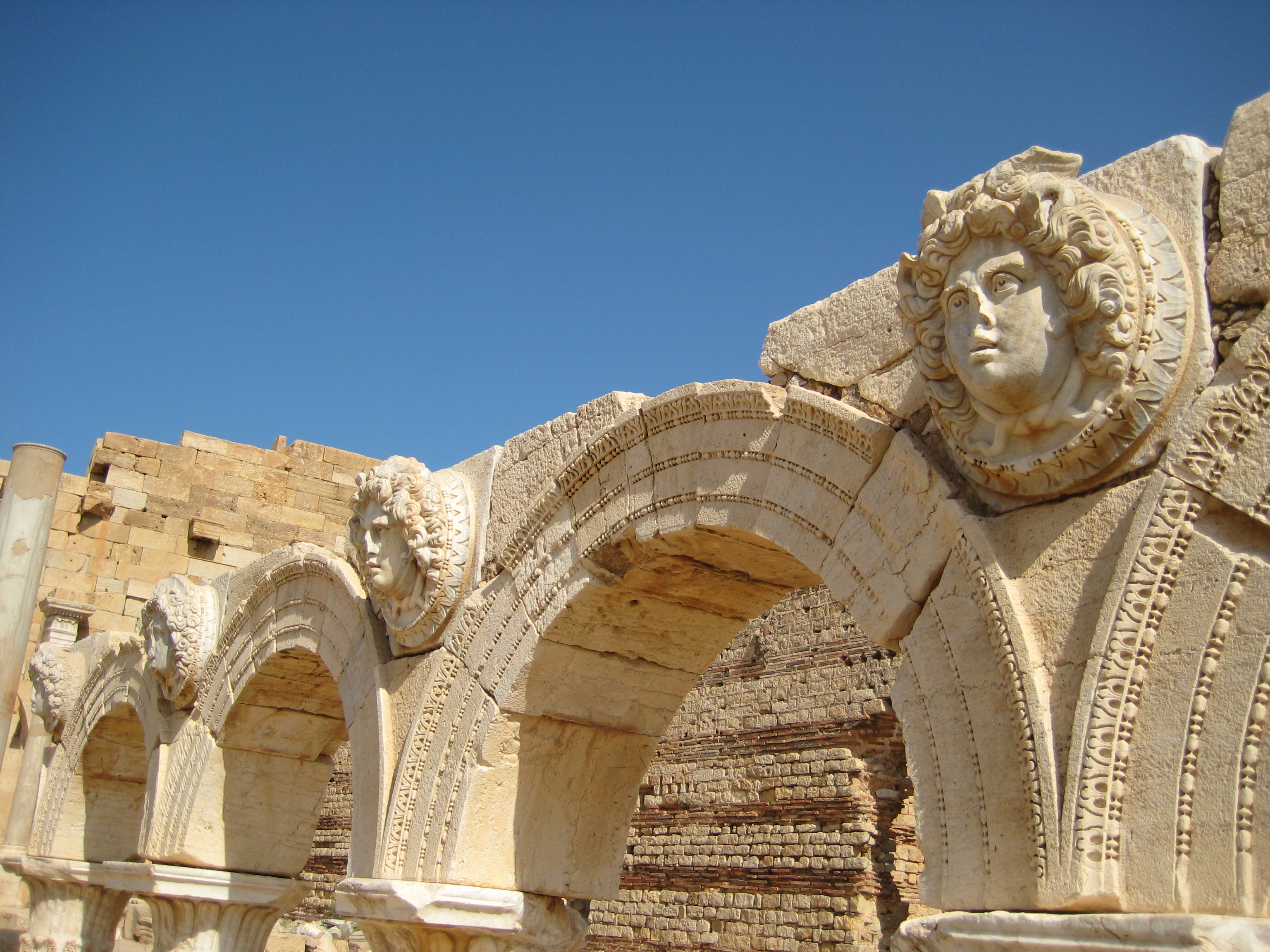 The arches that were surrounding the squared forum. Forum in Leptis Magna, 2nd A.D. (Libya)